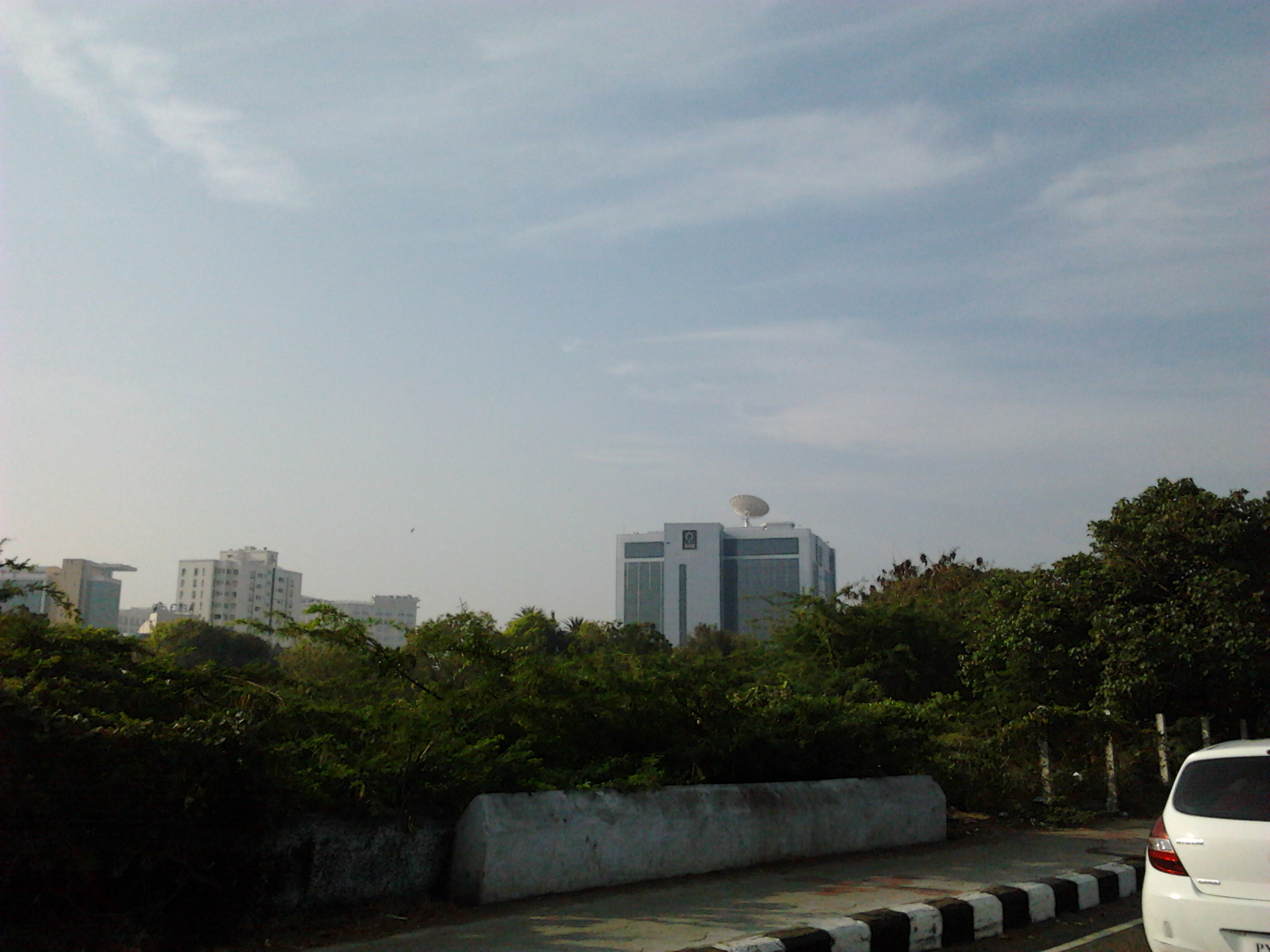 Photoed using Samsung Wave 525.